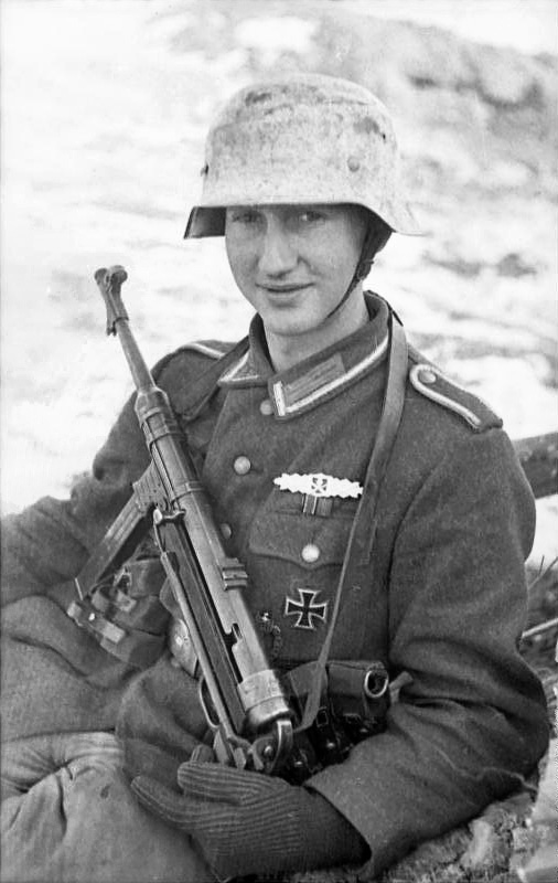 Soviet Union - noncommissioned officer (awarded the Close Combat Clasp and the ribbon bar of the East Medal) with MP 40 submachine gun in winter landscape, sitting.